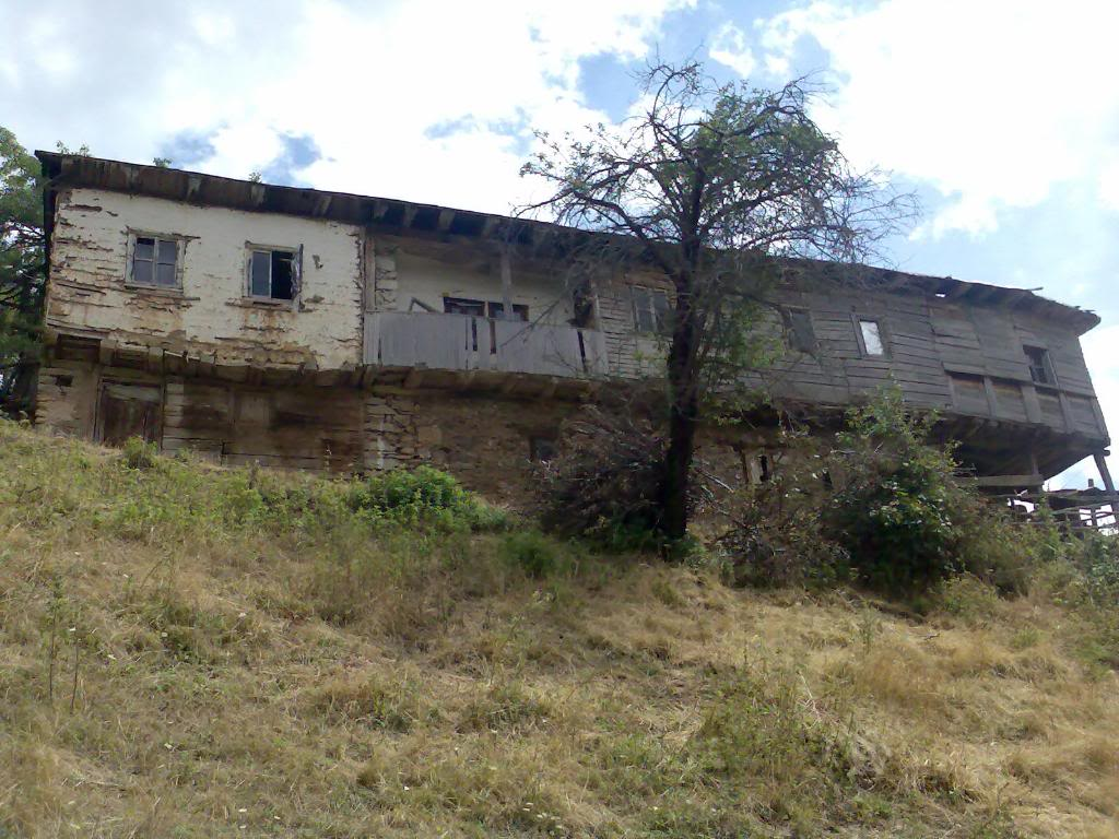 Village of Bitovo, Poreche region, Republic Macedonia